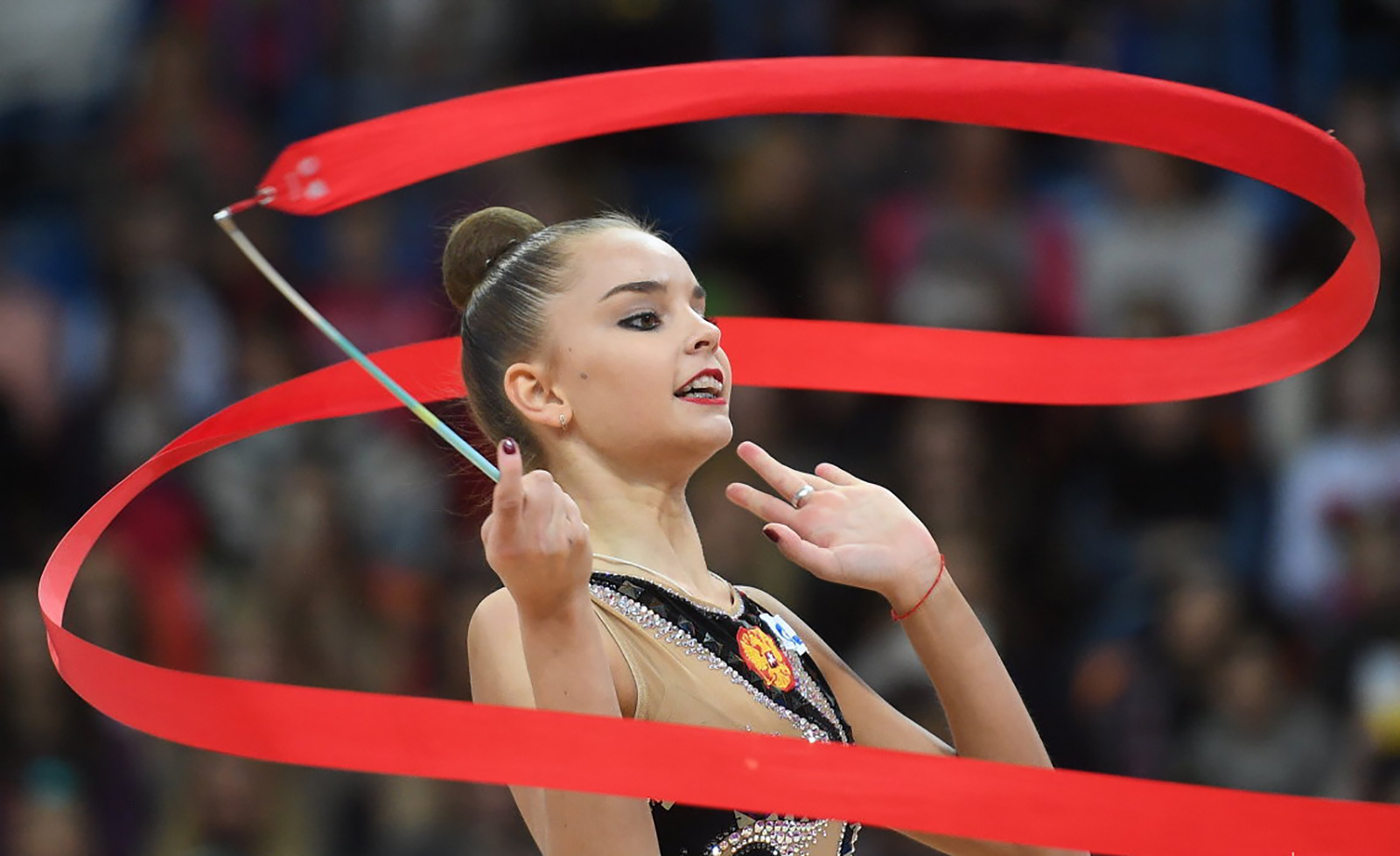 Russian rhythmic gymnast Dina Averina in 2017